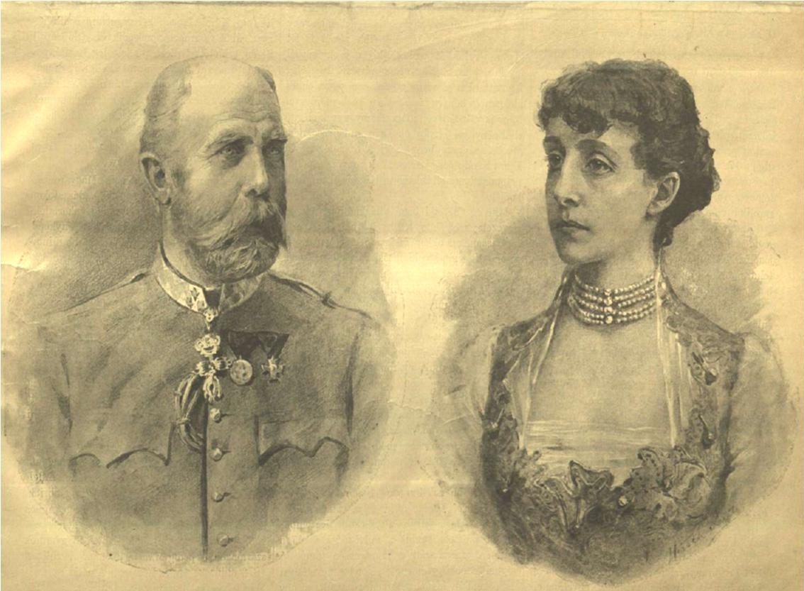 Archduke Karl Ludwig of Austria and his third wife